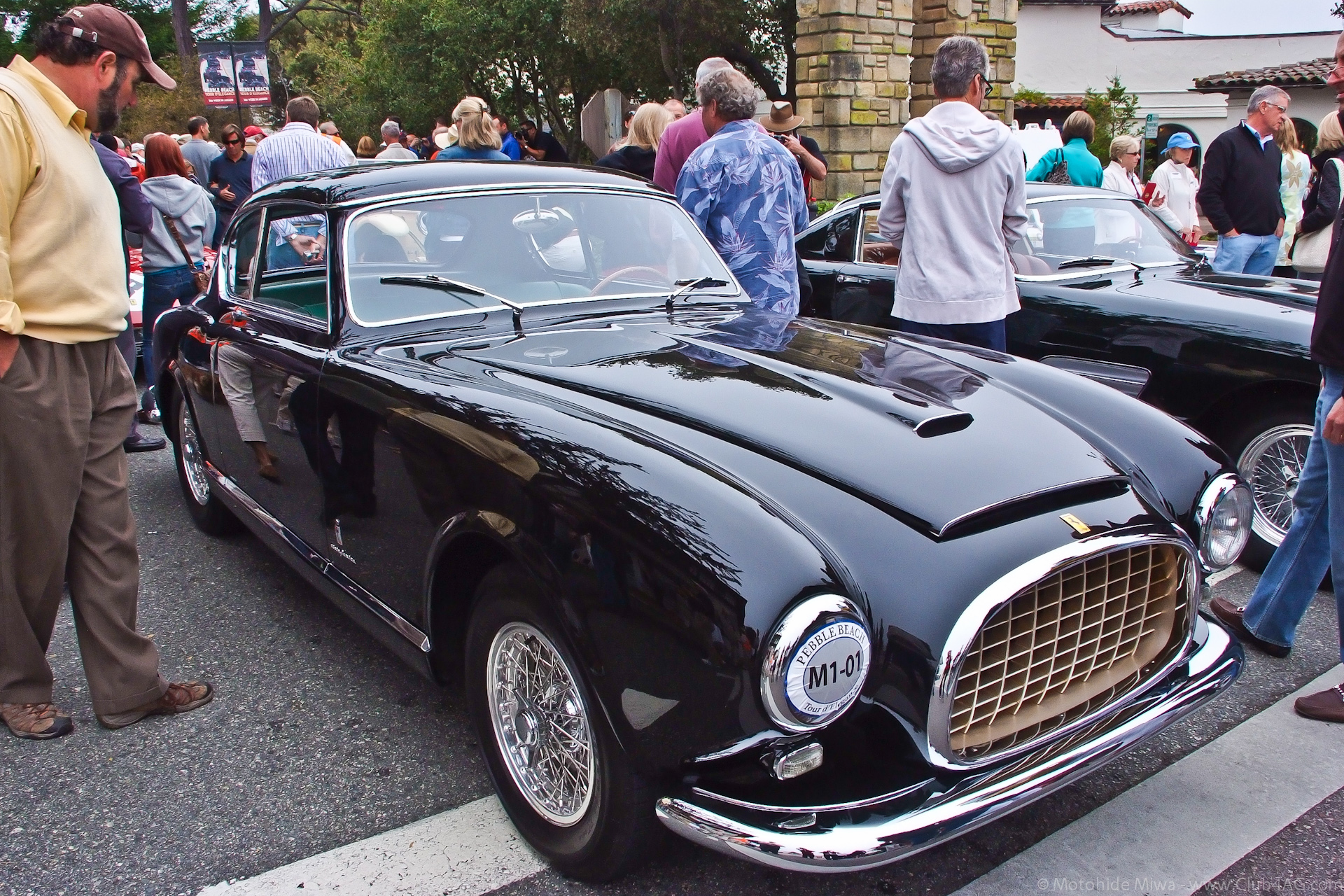 Monterey_Historics_2011-10-66